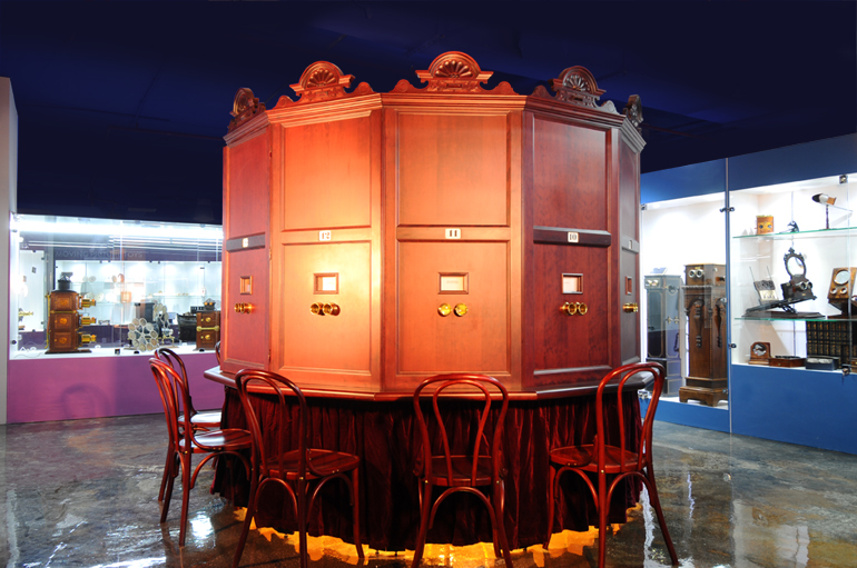 Kayserpanorama within the Dubai Moving Image Museum.